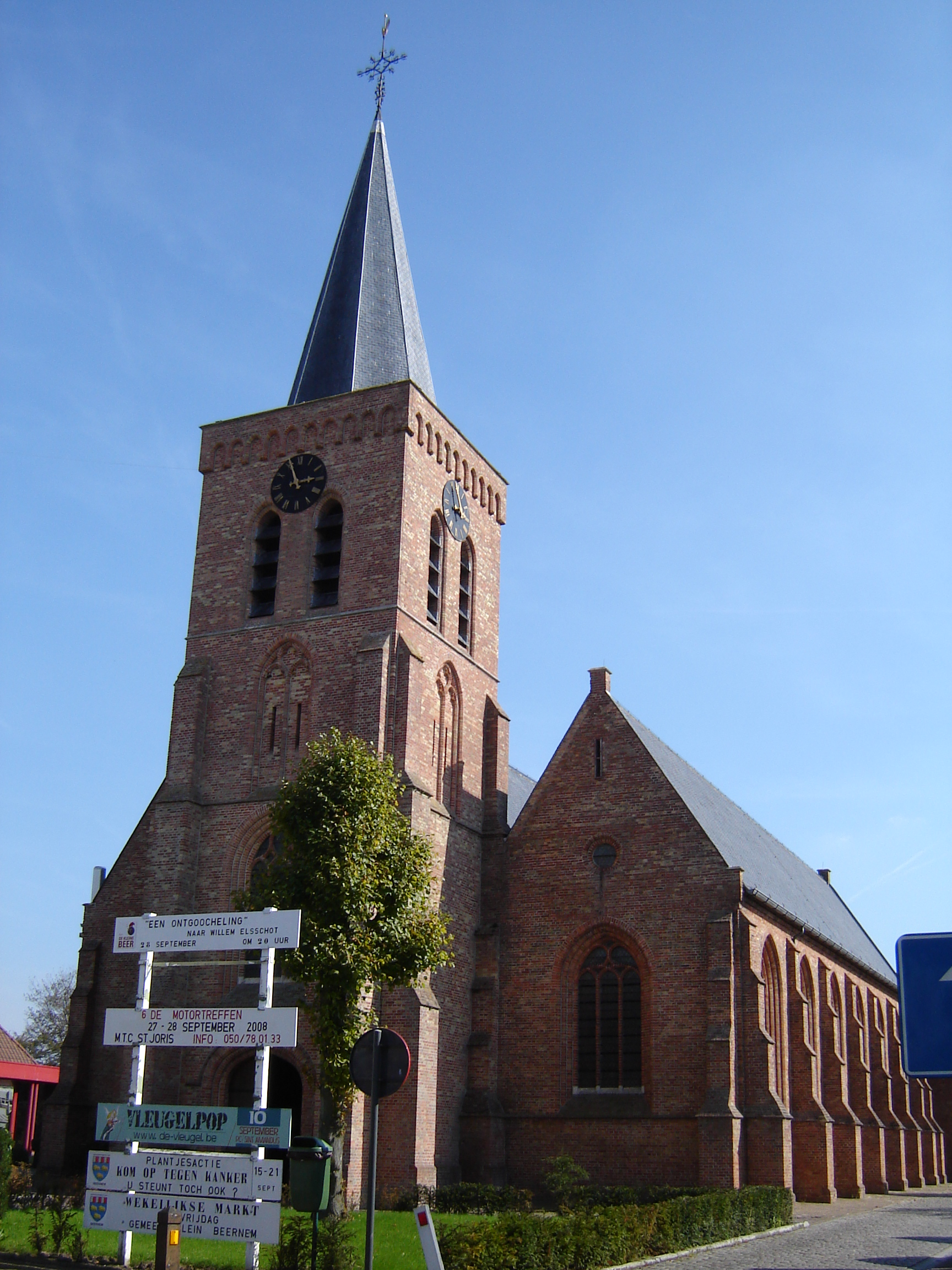 Church of Saint Peter in Oostveld. Oostveld, Oedelem, Beernem, West Flanders, Belgium